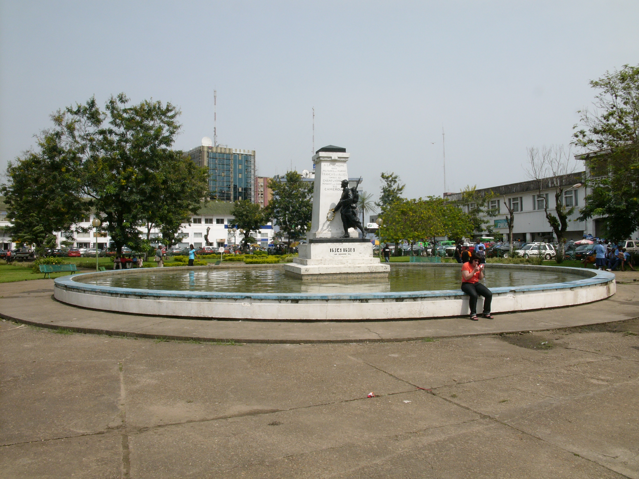 Ars&Urbis International Workshop, Douala, 2007. Photo by Christian Hanussek.